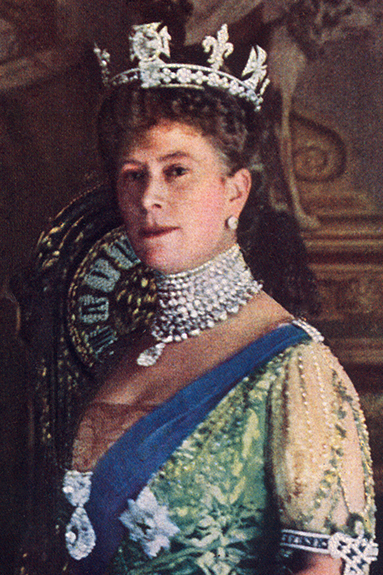 Portrait of Queen Mary, from L'Illustration (France), edition no. 3713. Mary is wearing her crown, with the Koh-i-Noor diamond in the front cross, without its arches. She also wears the Cullinan I diamond suspended from Cullinan II as a brooch on her chest.